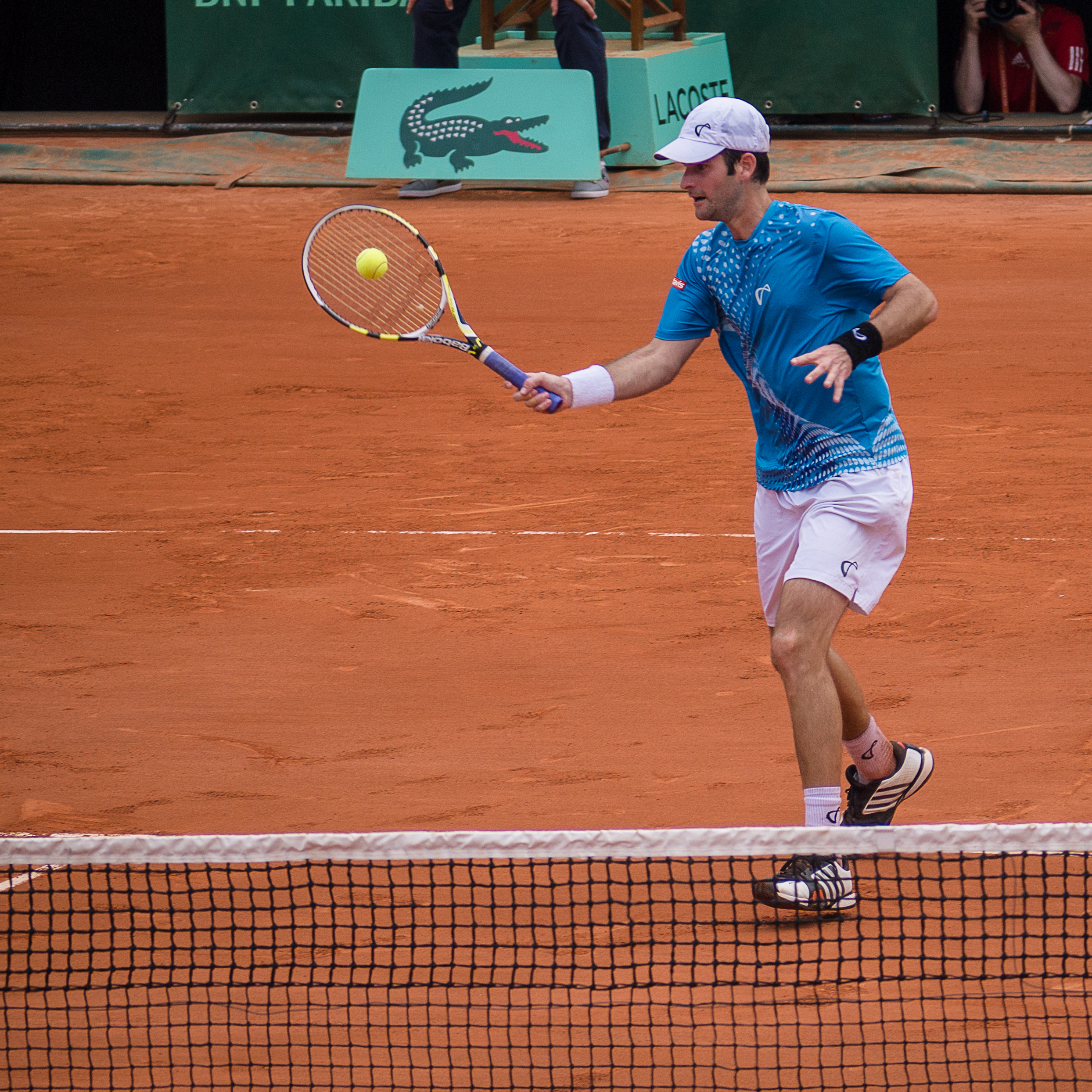 2ème tour Roland Garros 2012 : Gilles Simon (FRA) def. Brian Baker (USA)